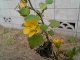 Abutilon theophrasti(Velvetleaf) Shot by NipponDaemon on Aug. 16, 2005.